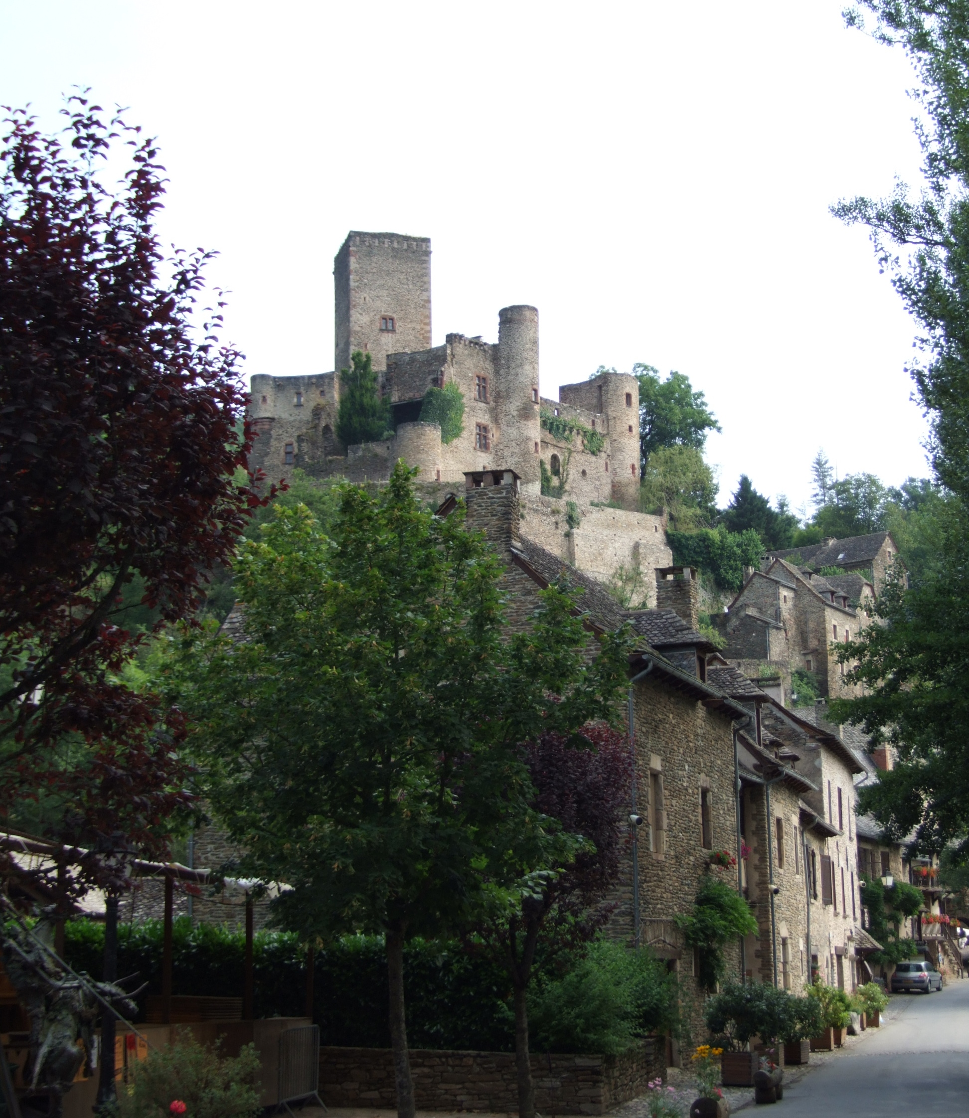 Belcastel, Aveyron, FRANCE